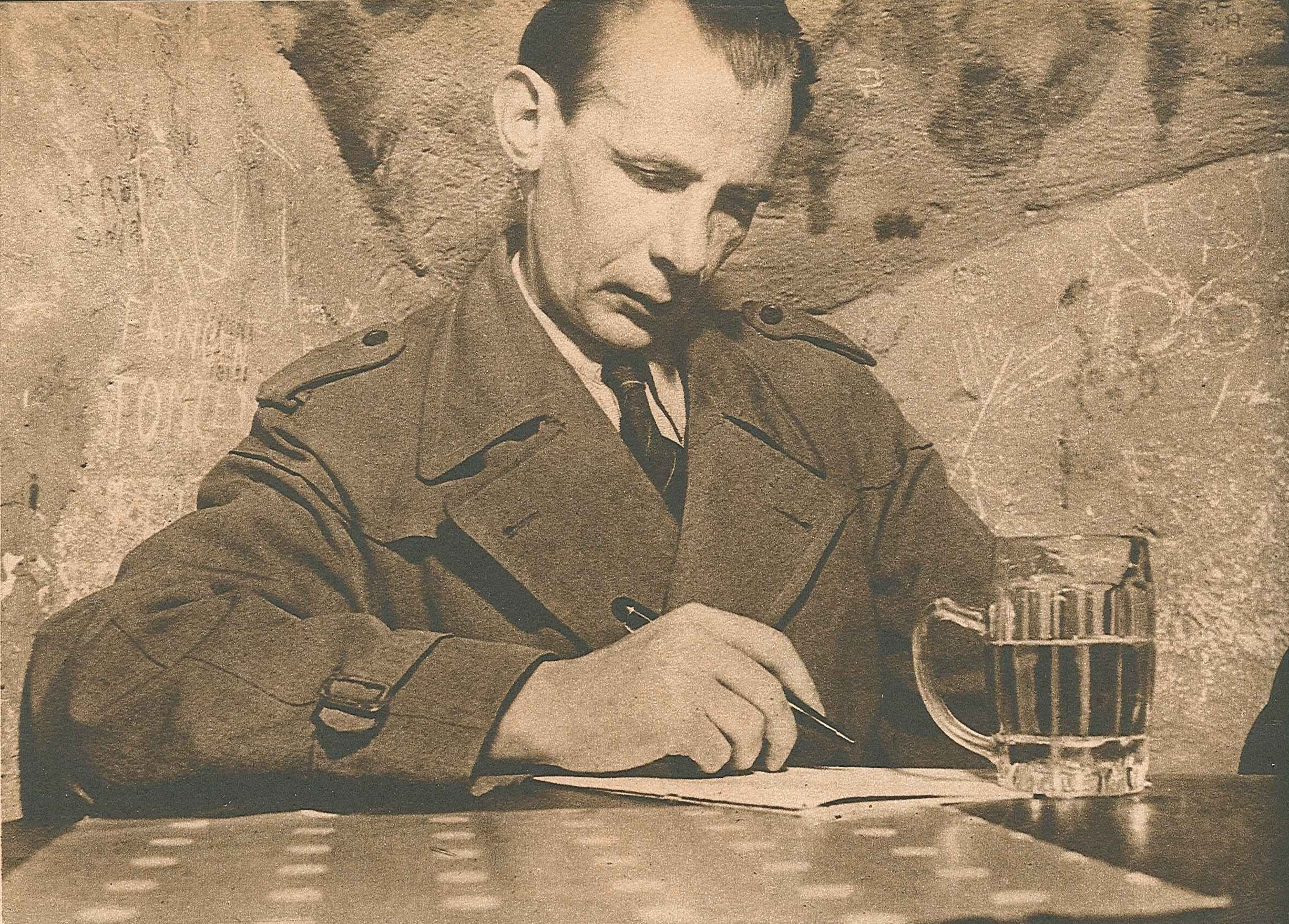 Nils Ferlin (1898-1961), Swedish poet.